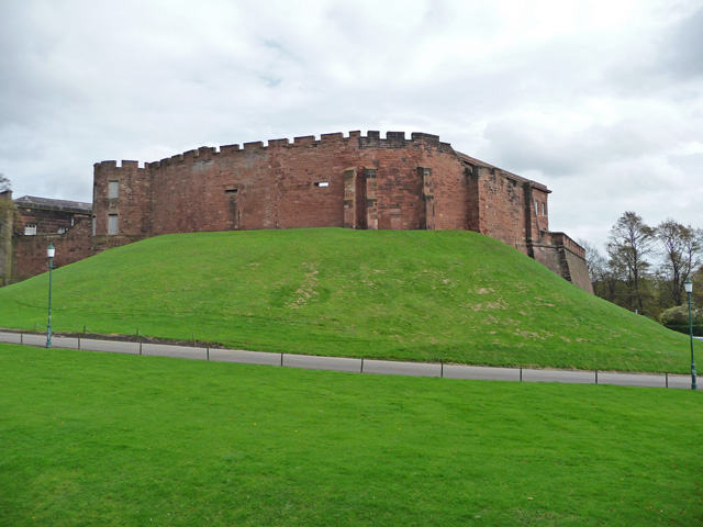 Chester Castle The oval motte of the castle with the half-moon tower visible at the left end.